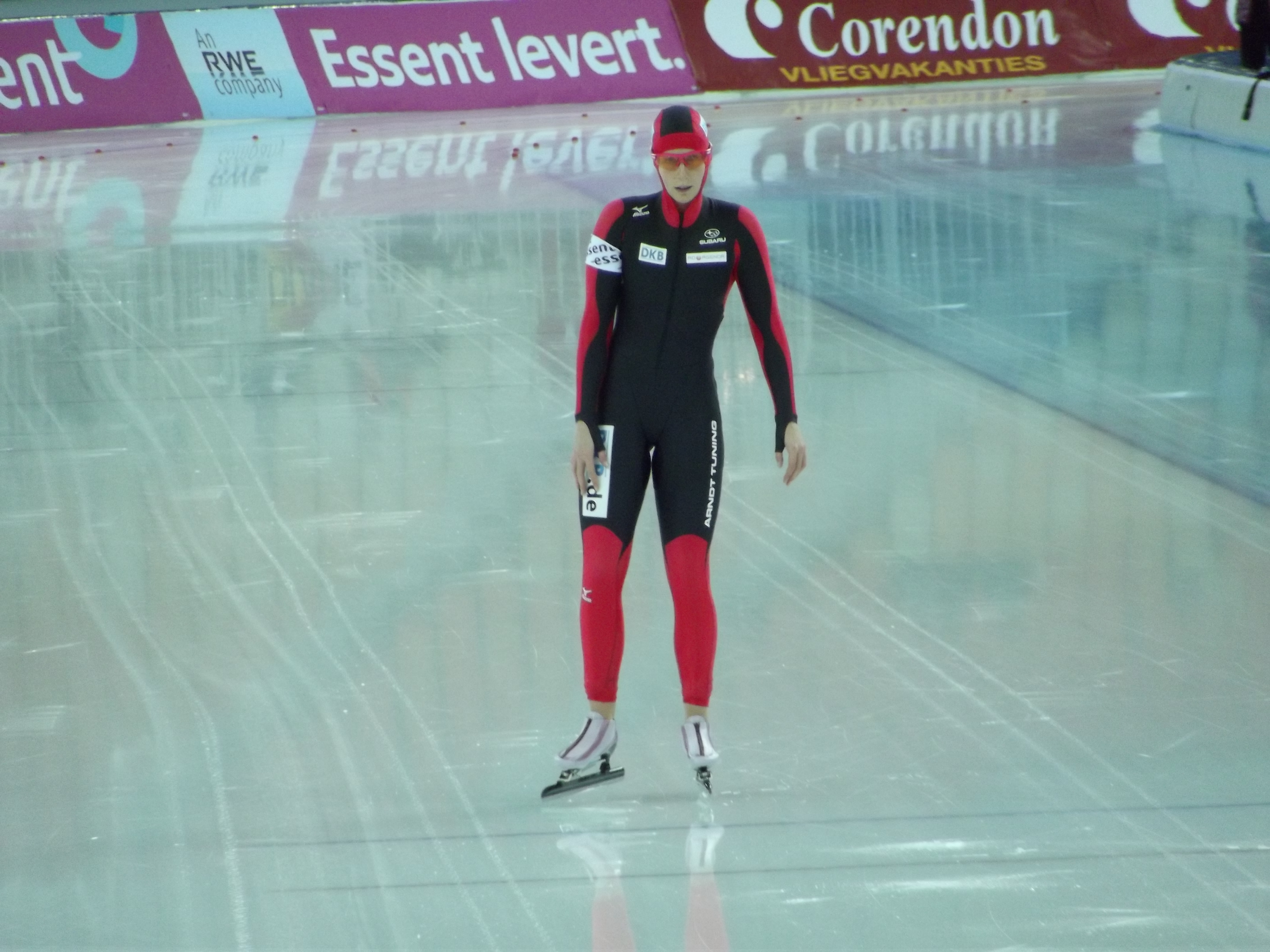 2013 World Single Distance Speed Skating Championships